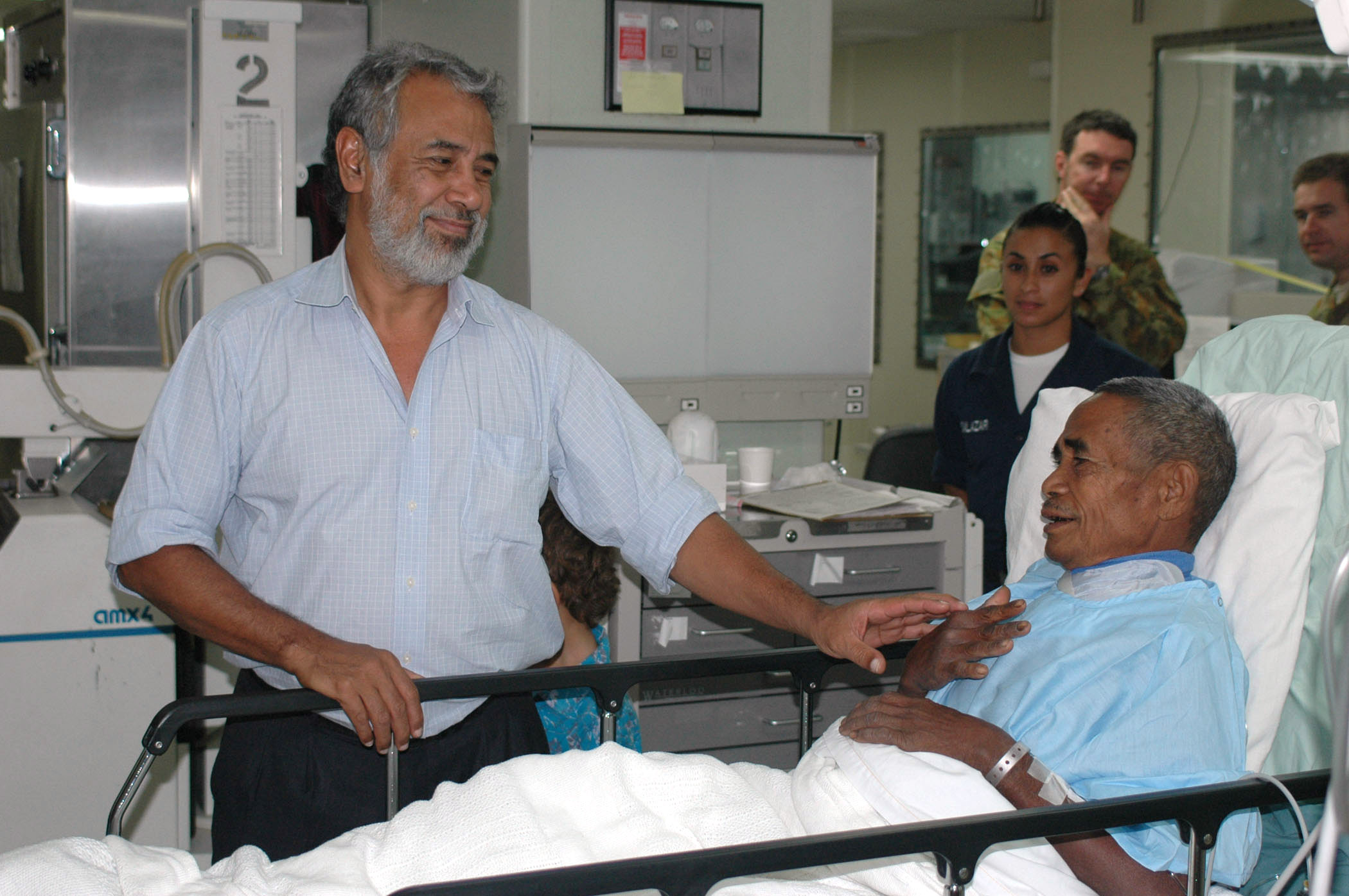 Dili, Timor Leste (Aug. 30, 2006) — President of the Democratic Republic of Timor Leste, Xanana Gusmao, visits with a patient in intensive care aboard the Military Sealift Command (MSC) hospital ship USNS Mercy (T-AH-19), during a tour of the ship. Mercy is anchored off the coast to provide humanitarian, medical and civic assistance to Dili residents. Mercy is in the fourth month of her five-month humanitarian and civic assistance deployment to South and Southeast Asia where her crew has already treated thousands of people. Mercy's mission is being carried out by volunteers from Project HOPE and Aloha Medical Mission, along with a contingent of military medical specialists from the United States, India, Malaysia, and Canada. Mercy's U.S. military crew consists of medical teams from the Navy, Air Force and Army.